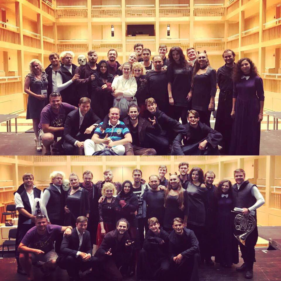 Neoopera Hamlet group on stage of Gdansk Shakespeare Theater